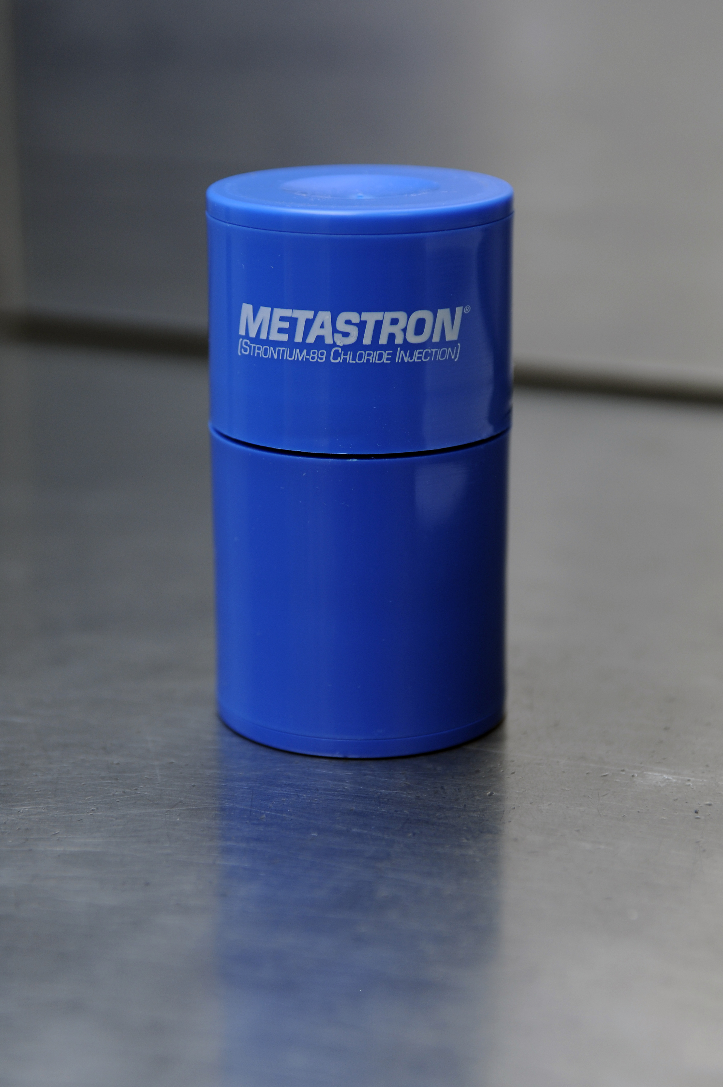 Metastron, a preparation of strontium-89 chloride used for purposes such as prostate cancer treatment. This product was manufactured by GE Healthcare in their Amersham facility, England.